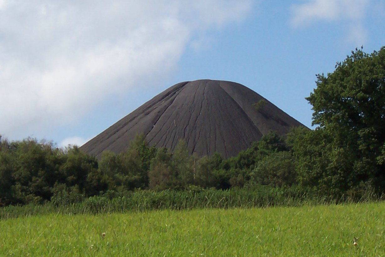 The slag heap in Paulton, Bath and North East Somerset, UK; referred to locally as "The Batch".